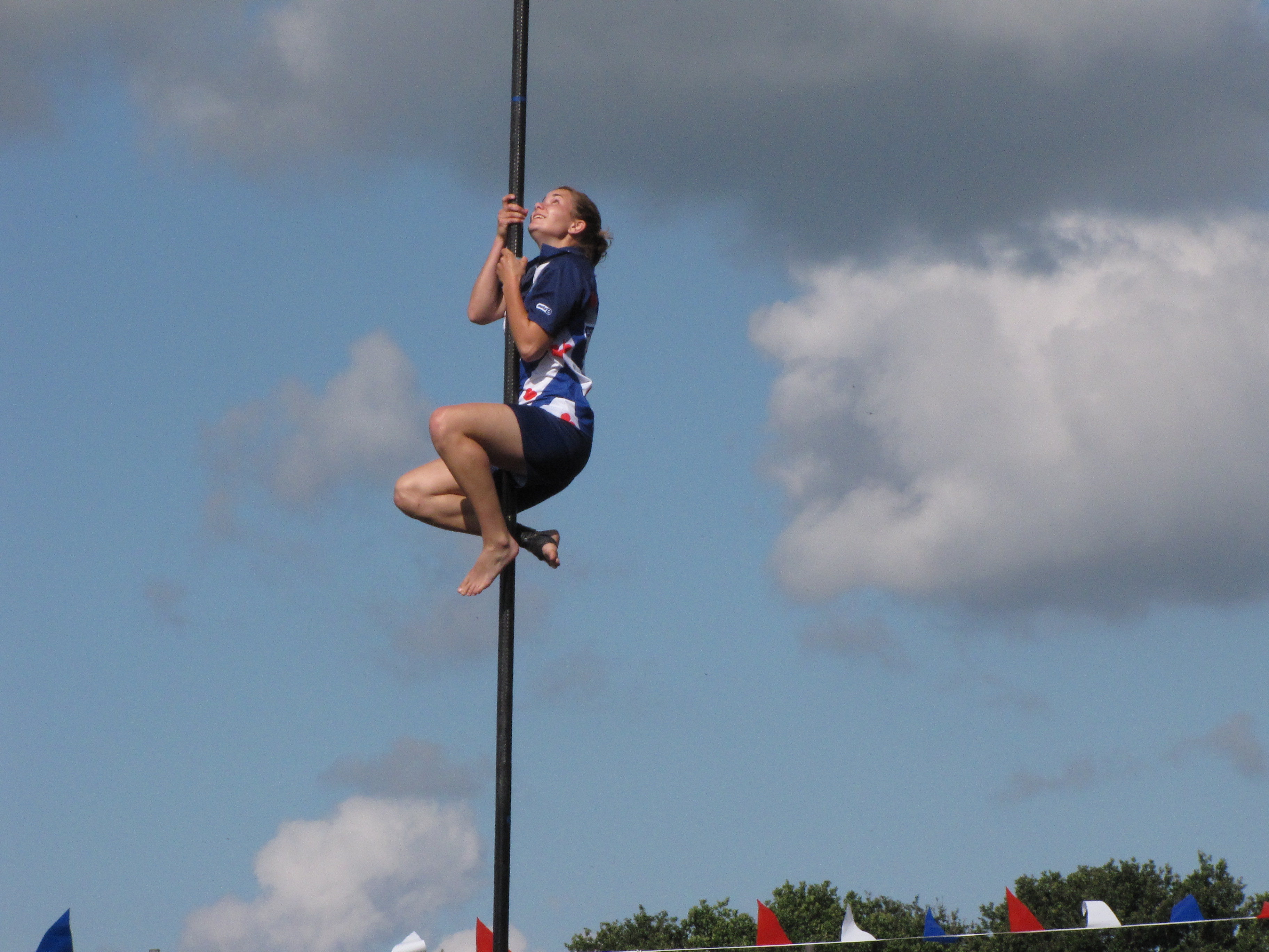 Dutch Championships Fierljeppen 2010 - Hiske Galama Champion with the women